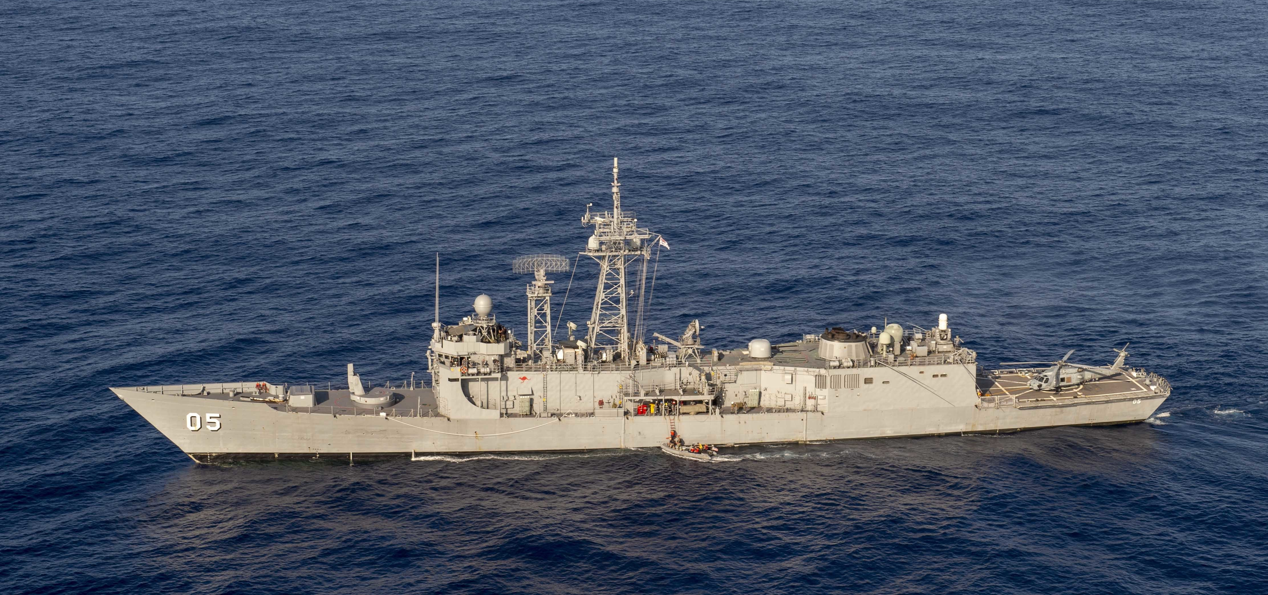 U.S. Navy sailors assigned to the guided-missile destroyer USS Preble (DDG-88), not vivible, and the Royal Australian Navy guided-missile frigate HMAS Melbourne (FFG 05) practice visit board search and seizure on each other's vessels during a cooperative deployment in the Philipine Sea on 18 April 2019.